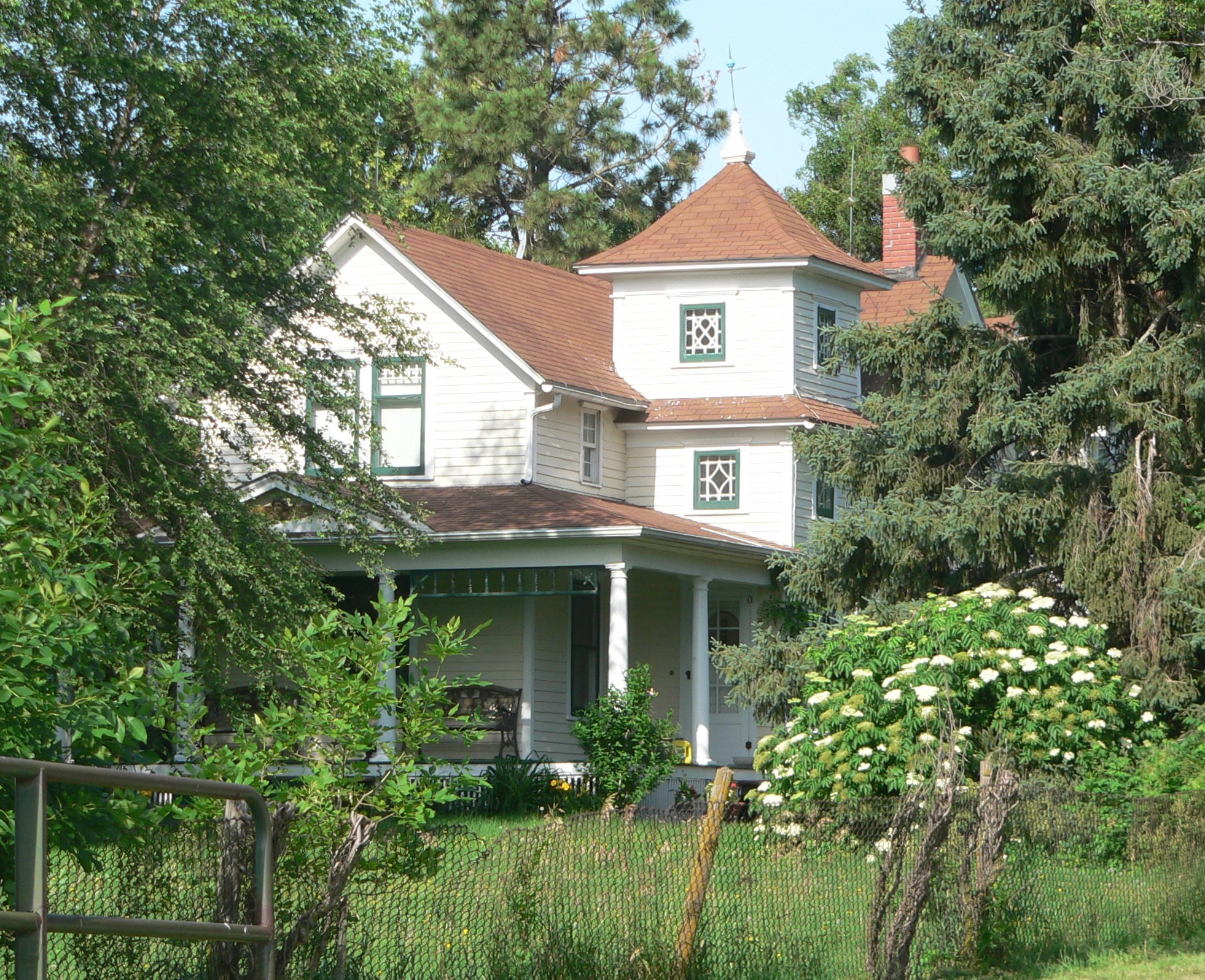 House on Herter farmstead, located at 4949 S. 148th Street, east of Lincoln in rural Lancaster County, Nebraska. The farmstead is listed in the National Register of Historic Places.